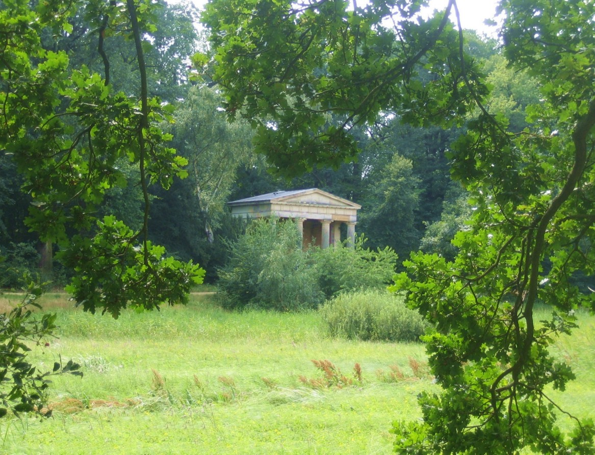 Berlin, Pfaueninsel (Isle of peacocks). Memorial for Queen Luise of Prussia.